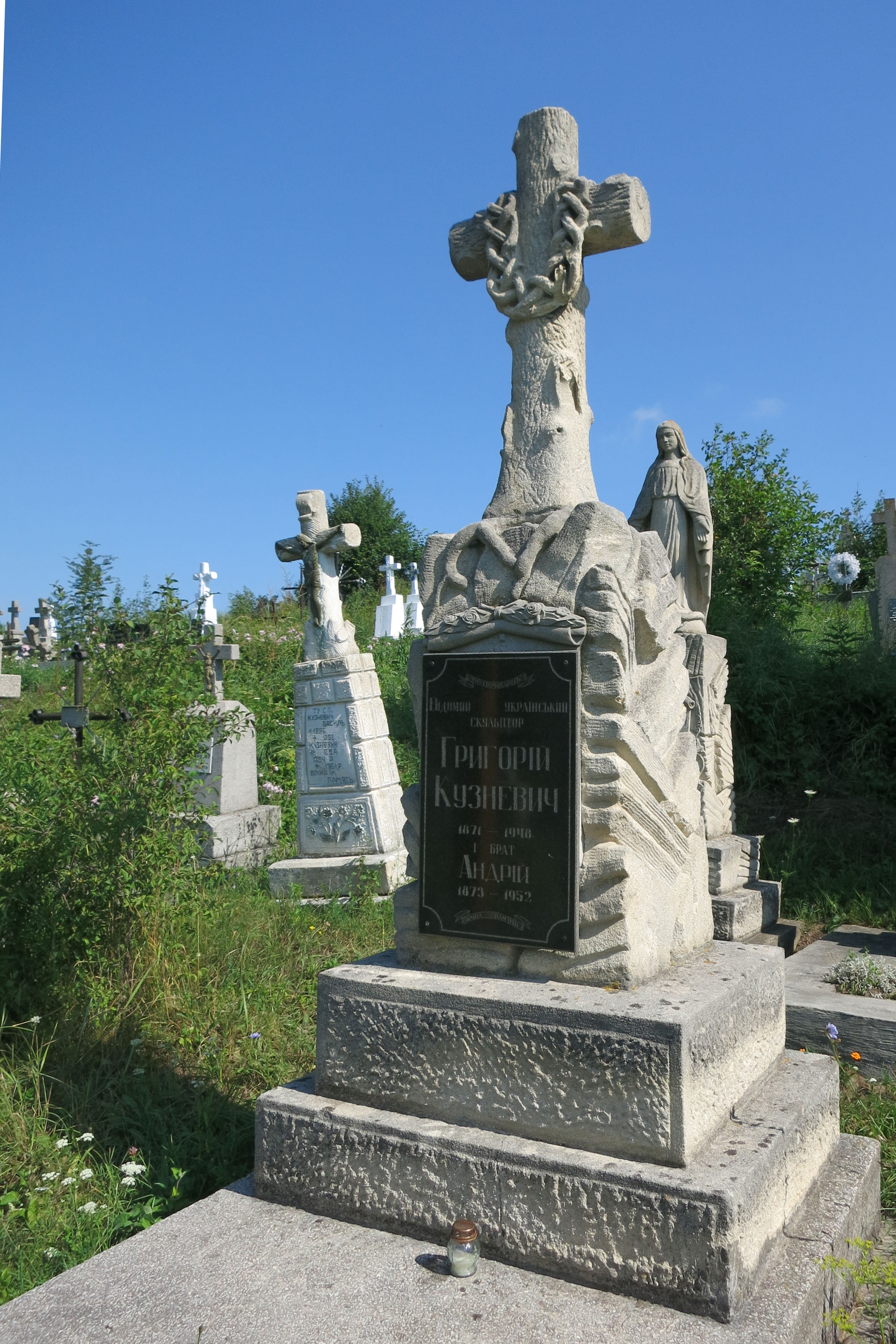 Grave of G.Kuzniewicz